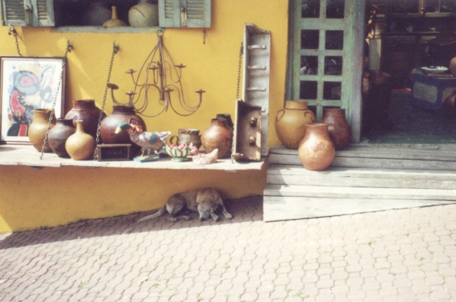 City of Embu, São Paulo State, Brazil (2003).